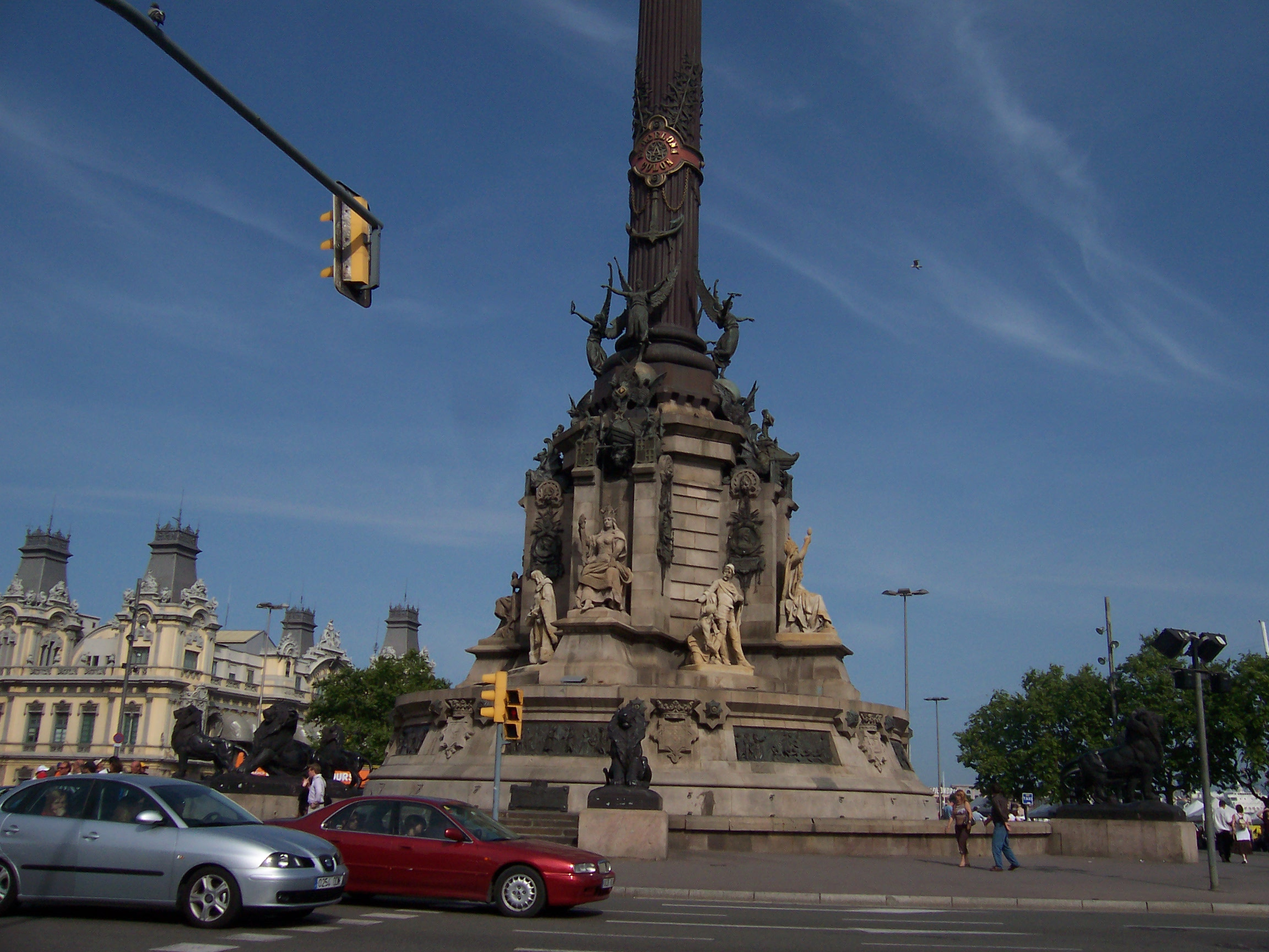 Statue of Columbus, Barcelona.